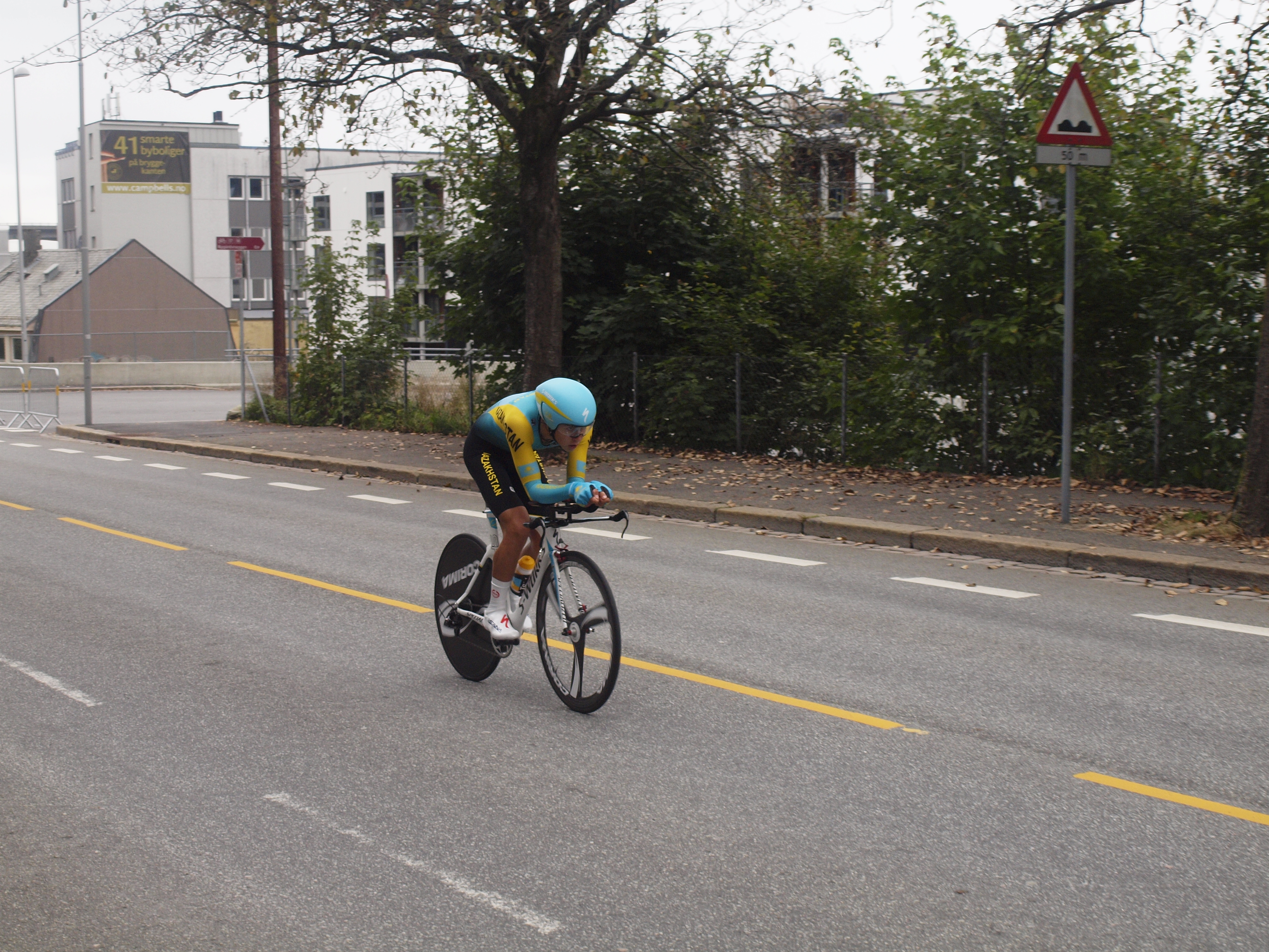 Igor Chzhan at the 2017 UCI World Championships